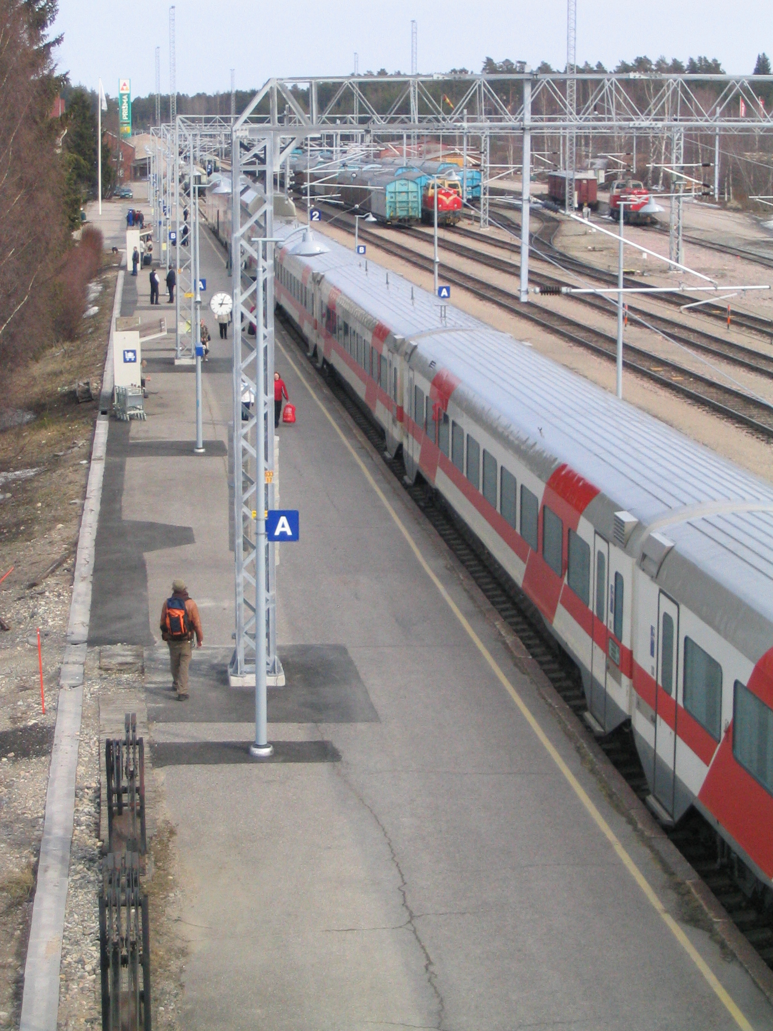 An Intercity train at Kajaani railway station in Kajaani, Finland